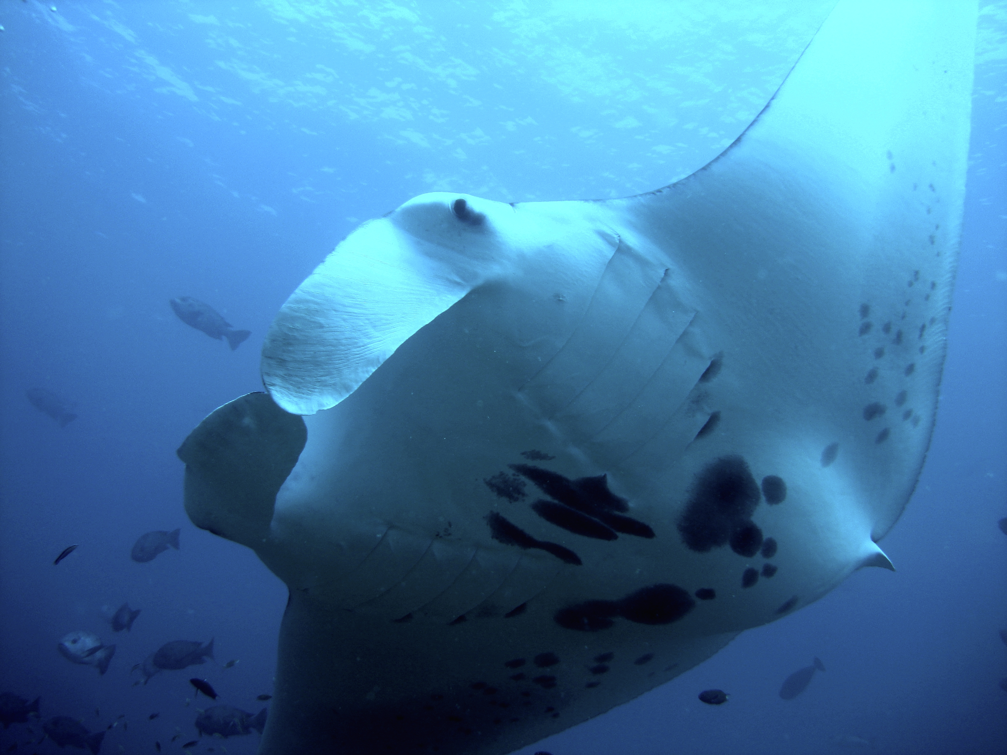 Reef manta ray (Manta alfredi) at the Fushivaru Thila cleaning stations, Lhaviyani Atoll in the Maldives.